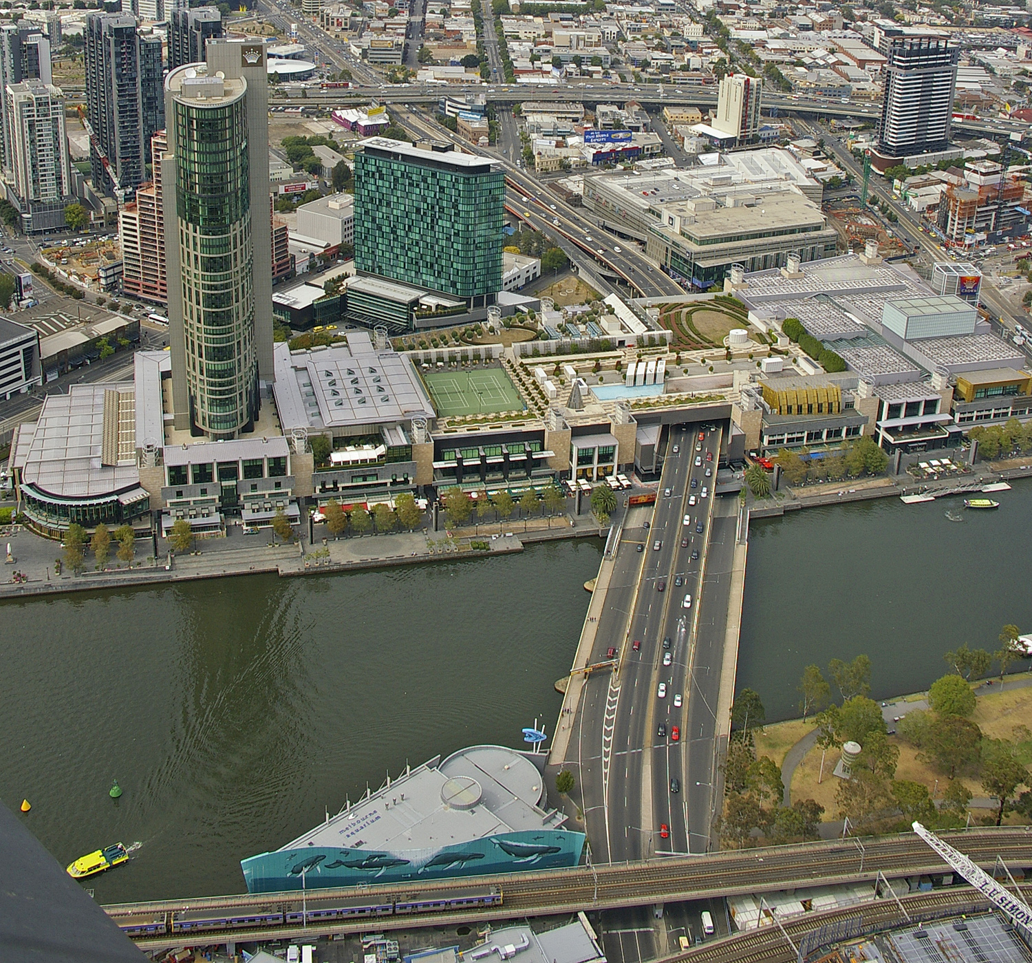 Crown Casino and Entertainment Complex and King Street Bridge. Taken from the Rialto Towers Observation Deck